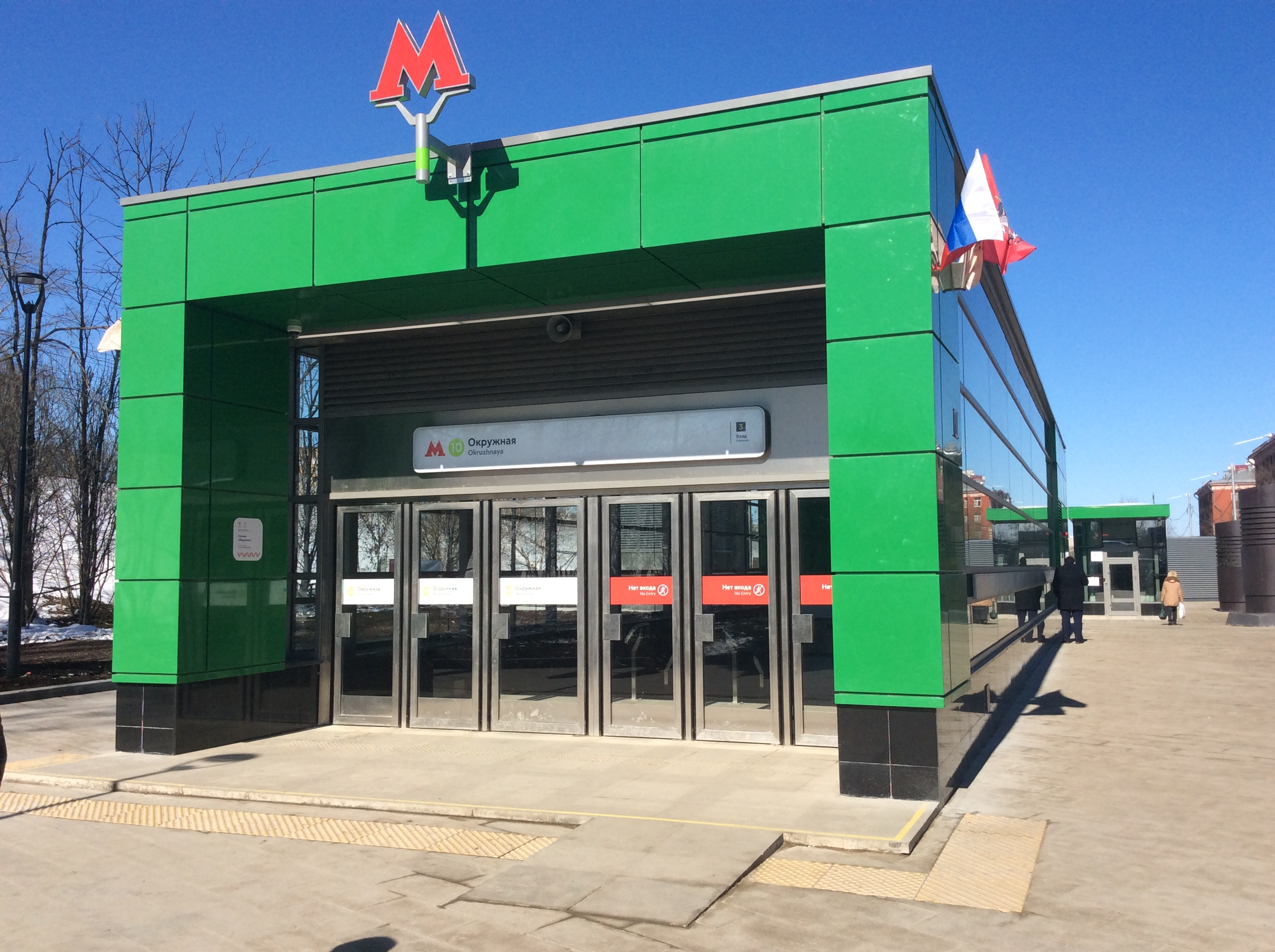 Okruzhnaya, a Moscow Metro station